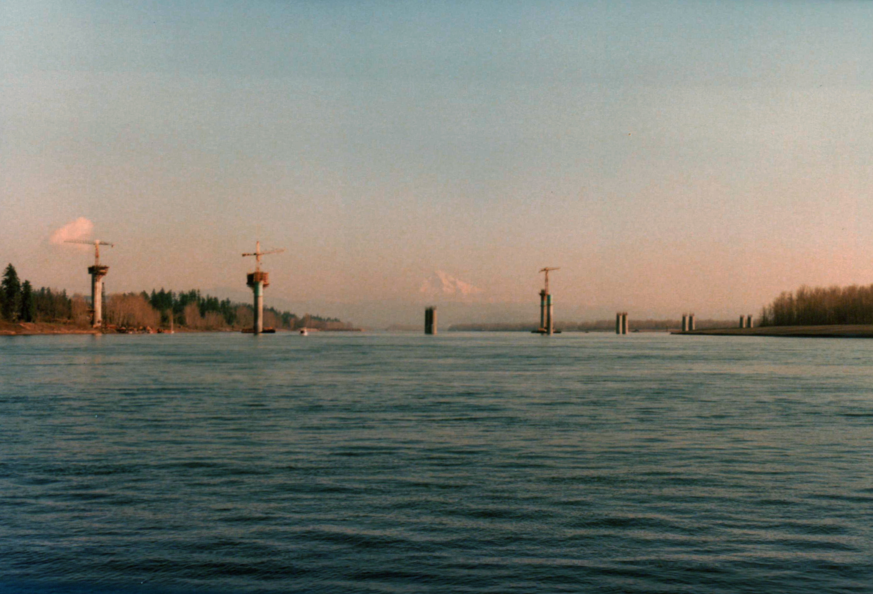 The Glenn L. Jackson Memorial Bridge from Columbia River Looking East from a boat in the Columbia river circa 1980-81